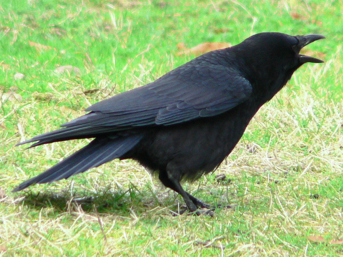 American or Northwestern Crow adjacent to the Burke-Gilman Trail